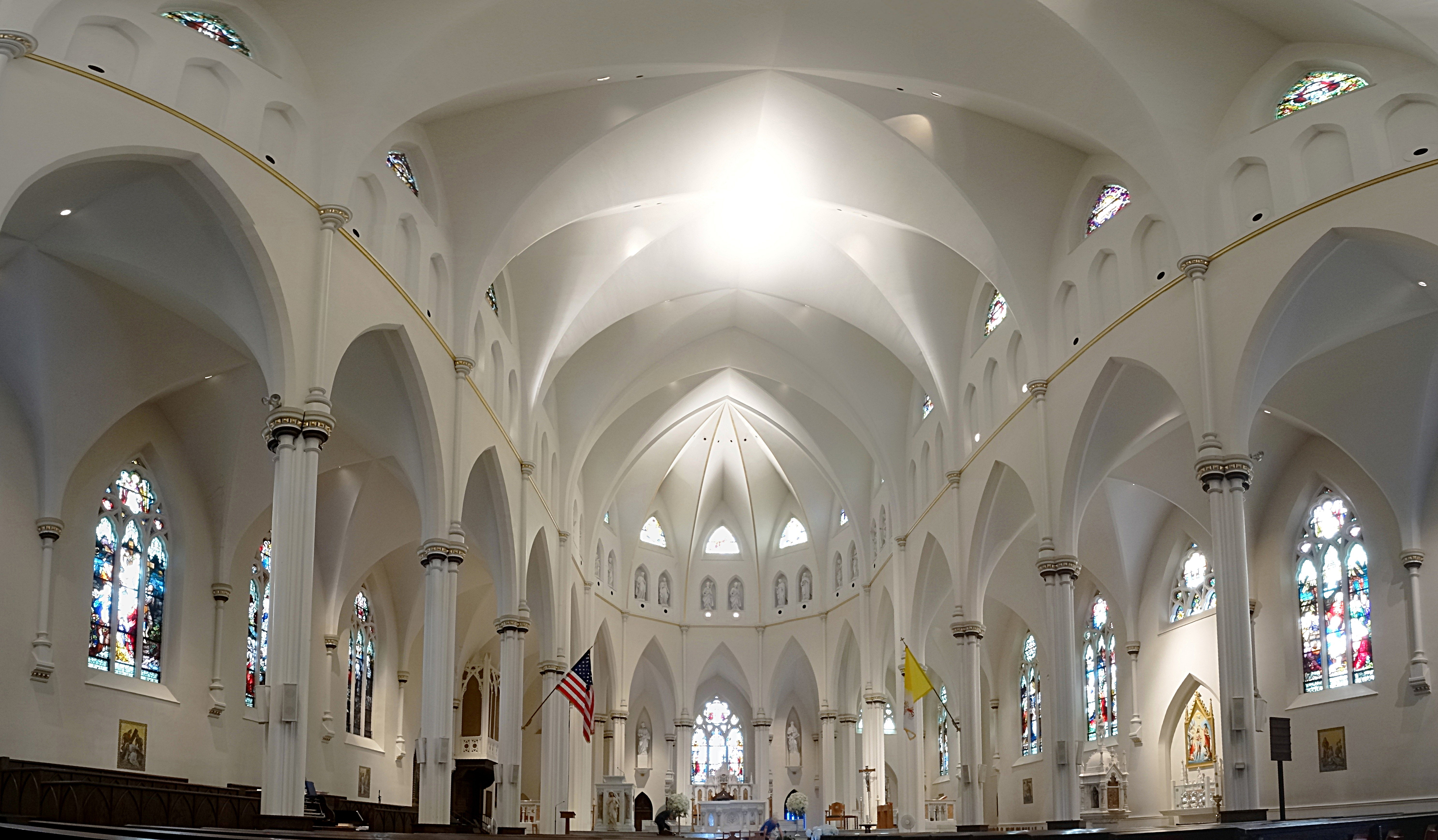 Cathedral of the Immaculate Conception, Interior Panorama